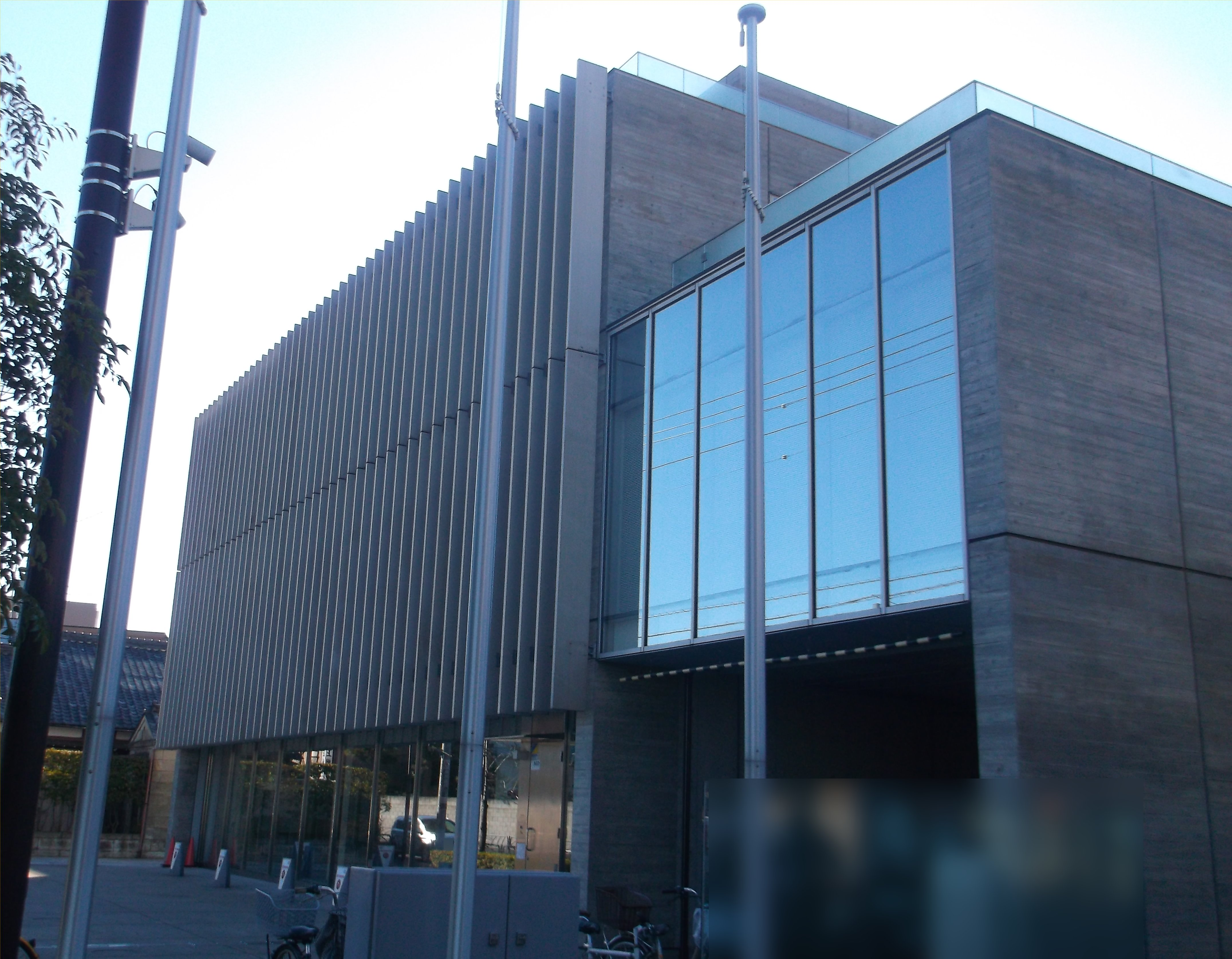 A photo of TAKARA TOMY head office,Tateishi,Katsushika-ku,Tokyo,Japan.